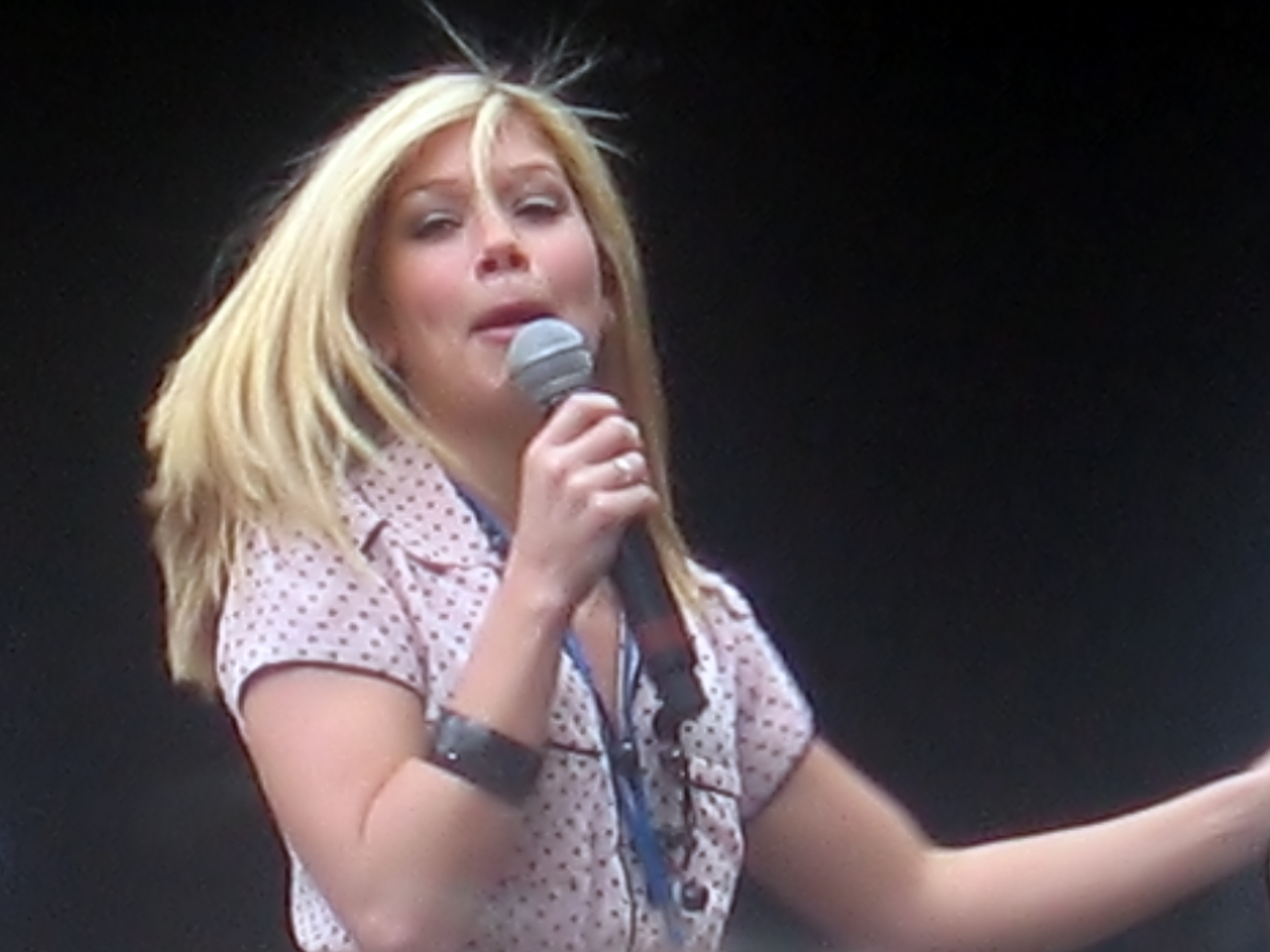 A photo taken of Nikki Sanderson appearing in Manchester